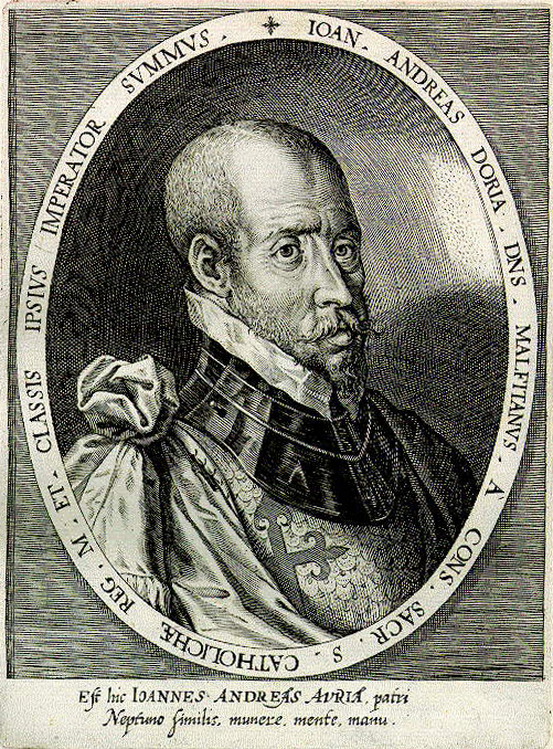 Portrait of Giovanni Andrea Doria (1540-1606)